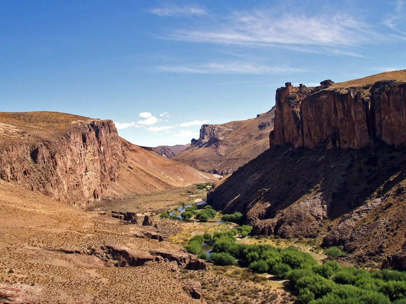 Canyon of the Río Pinturas, where the Cuevas de las Manos is located in the Santa Cruz Province, Argentina.